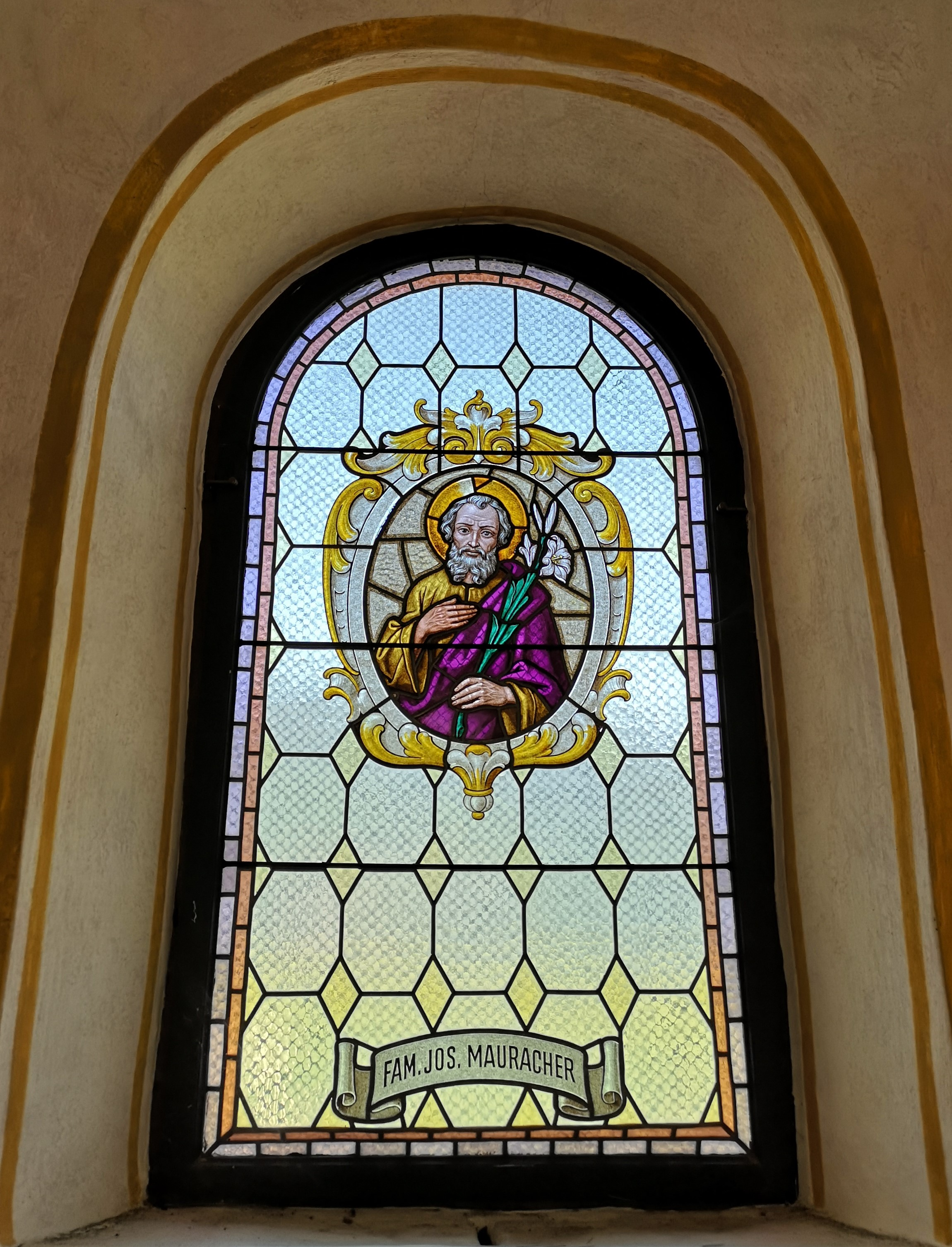 The Mauracher stained glass window inside the Holy-Cross-Chapel in Schreckbichl-Girlan